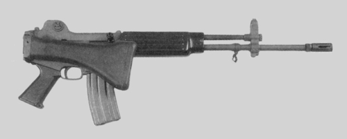 A Daewoo K2, Southkorean service rifle